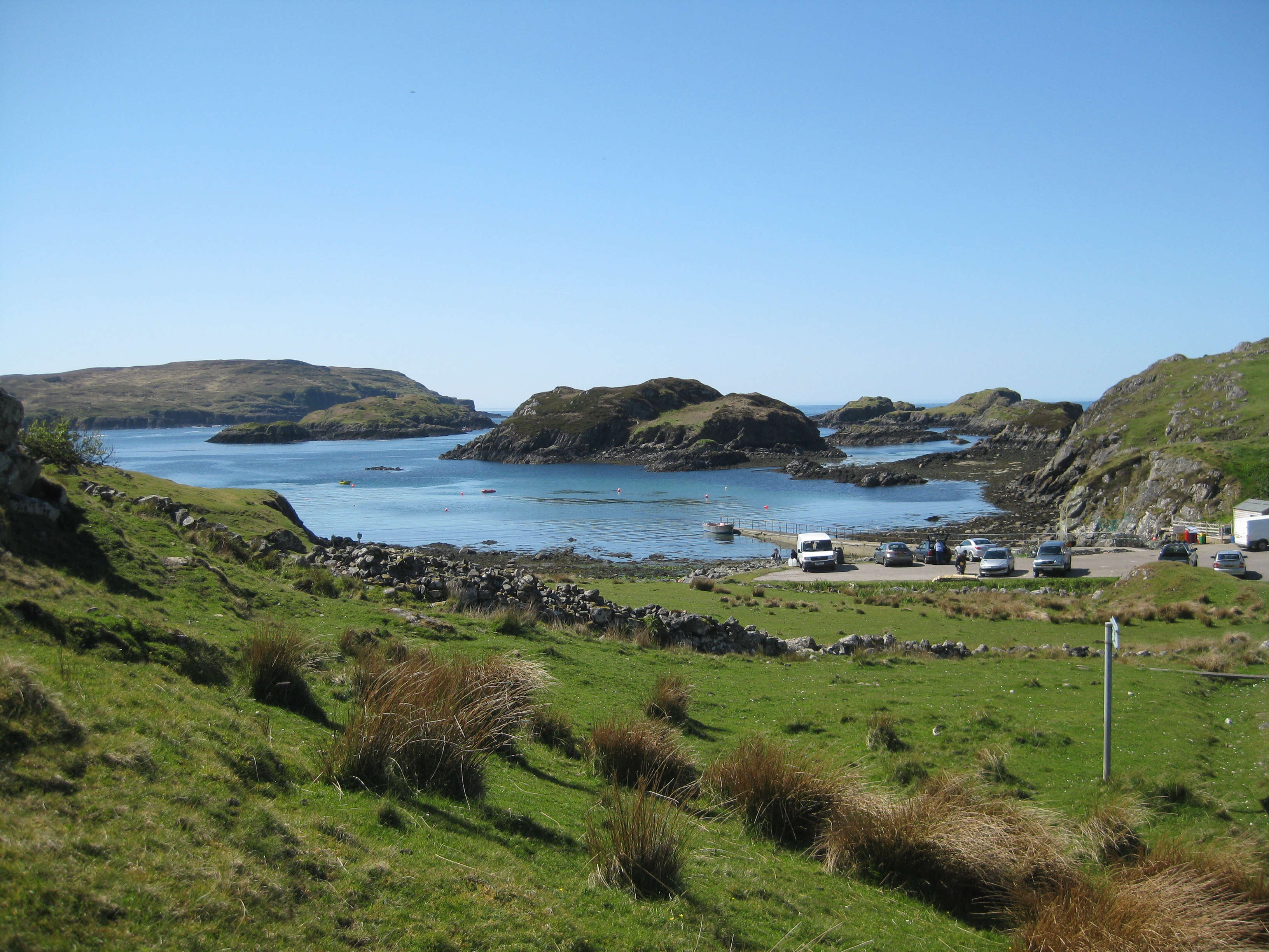 Tarbet, Ferry to Handa Island, Handa Island in the upper part of the picture on the left side